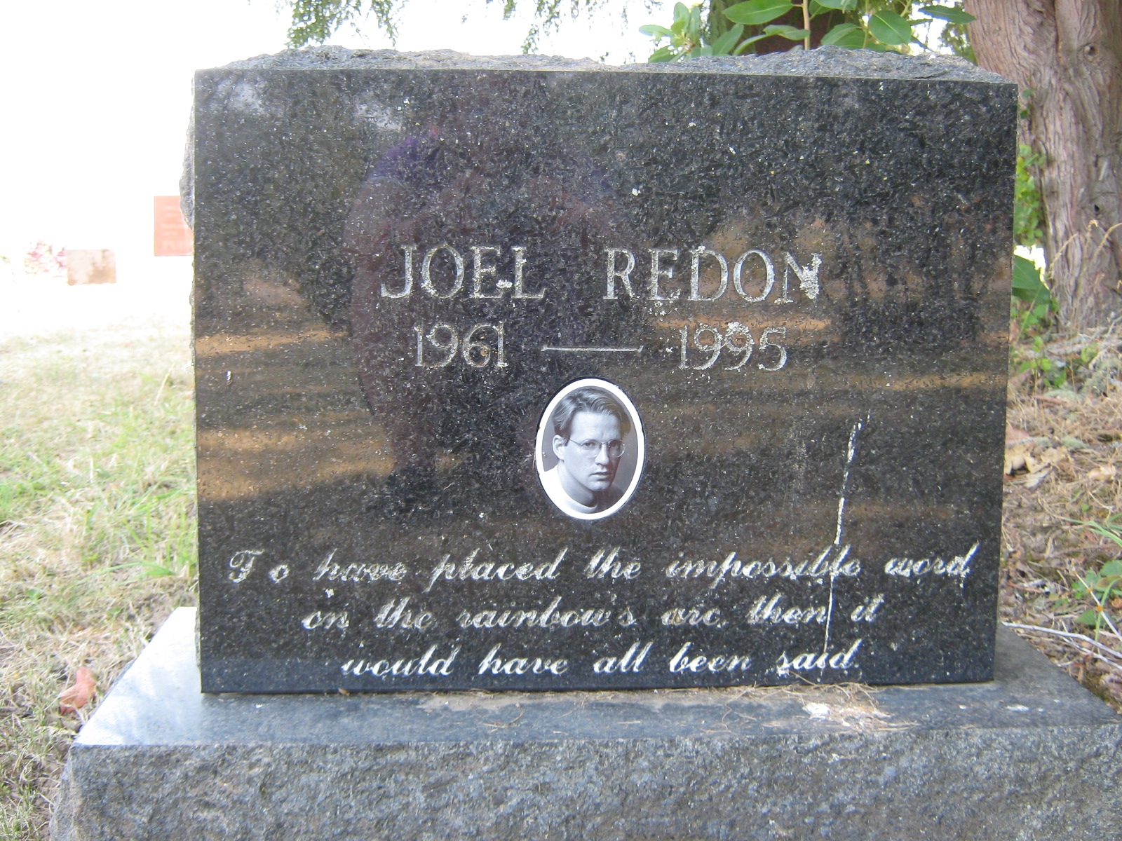 Gravestone of author Joel Redon (1961-1995) at the cemetery of Spring Valley Presbyterian Church in Zena, Polk County, Oregon, United States. Black granite with a photo portrait of Redon. Inscription: "To have placed the impossible word on the rainbow's arc, then it would have been all said." Paraphrase of a quote from Violette Leduc